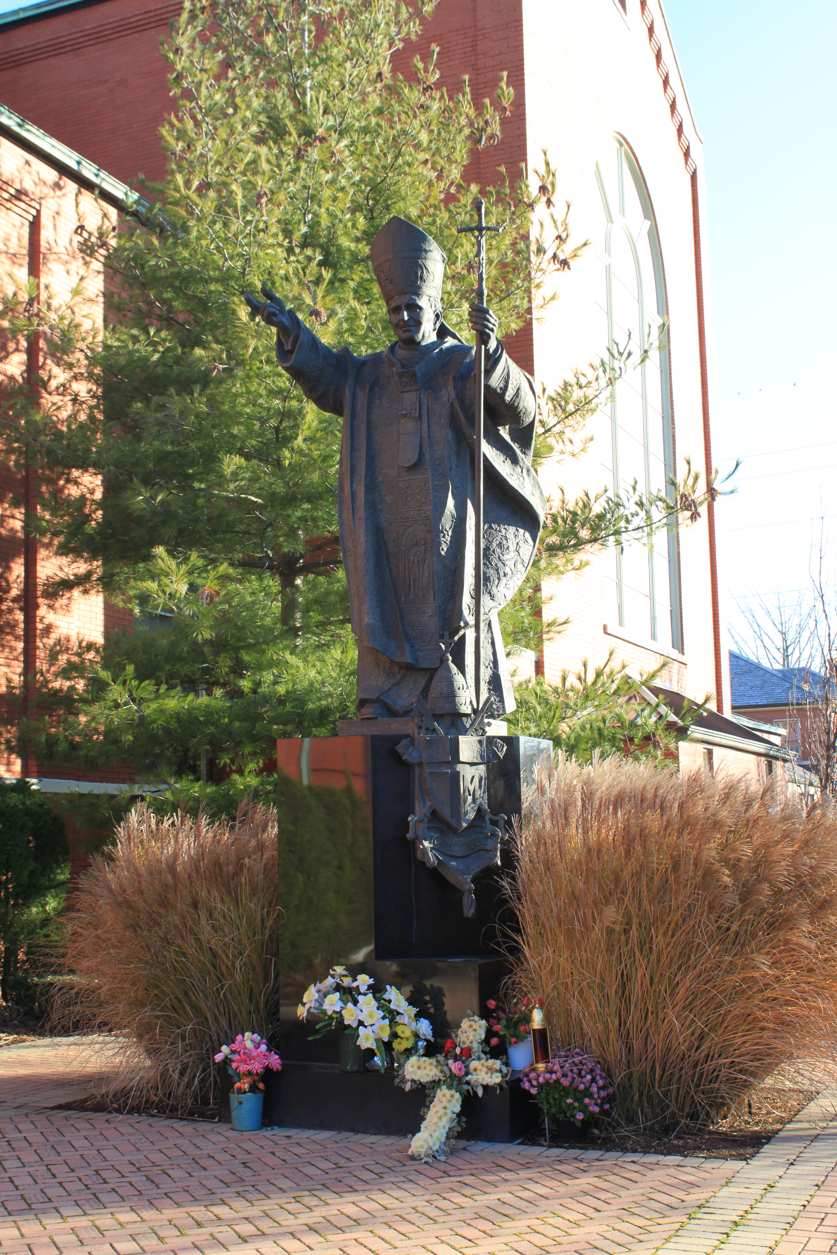 Statue of Pope John Paul II, Our Lady of Mt. Carmel Catholic Church, 976 Superior Boulevard Wyandotte, Michigan.